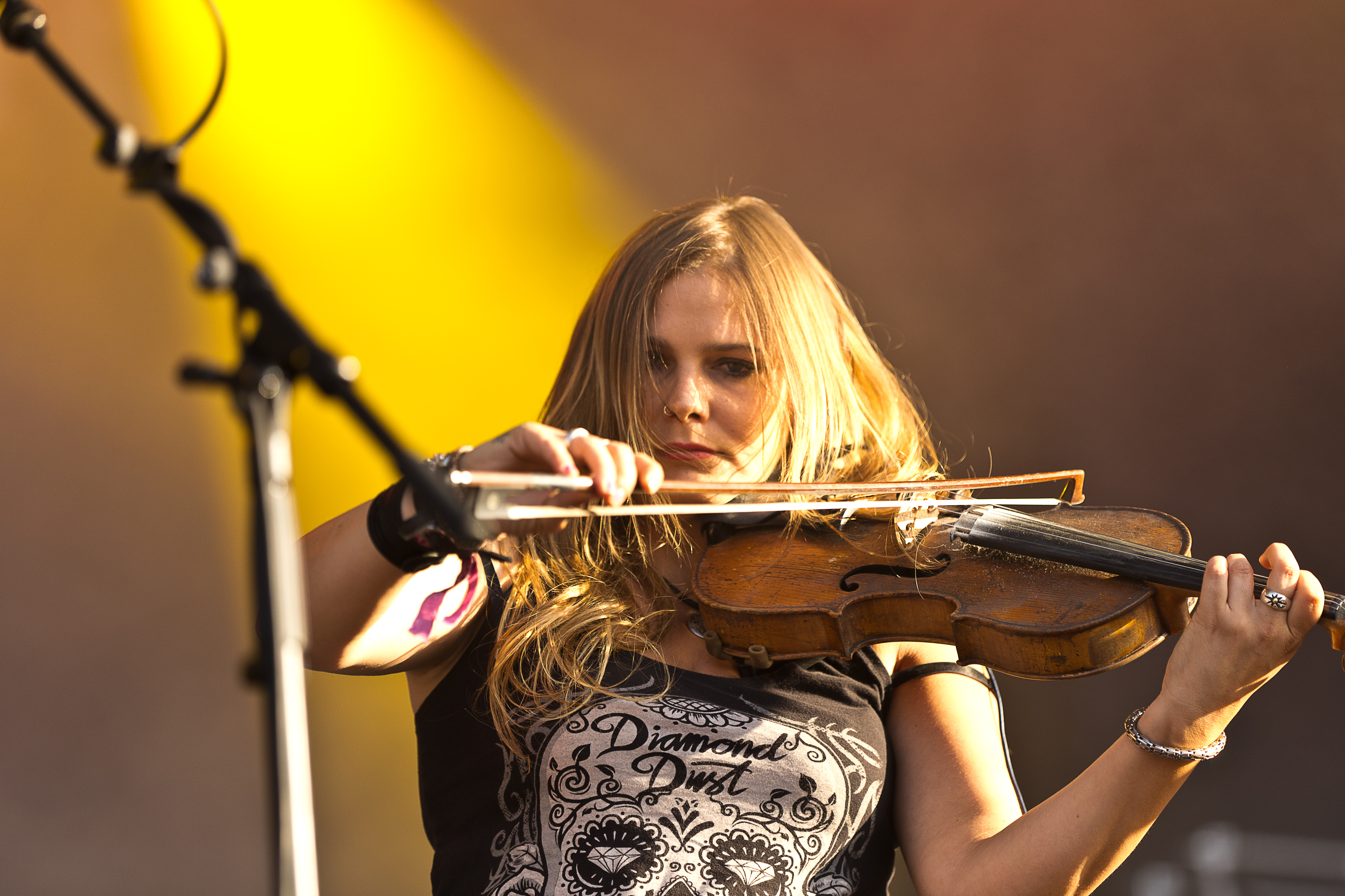 The Swiss pagan metal band Elveitie at the Rockharz Open Air 2015 in Ballenstedt/Germany.